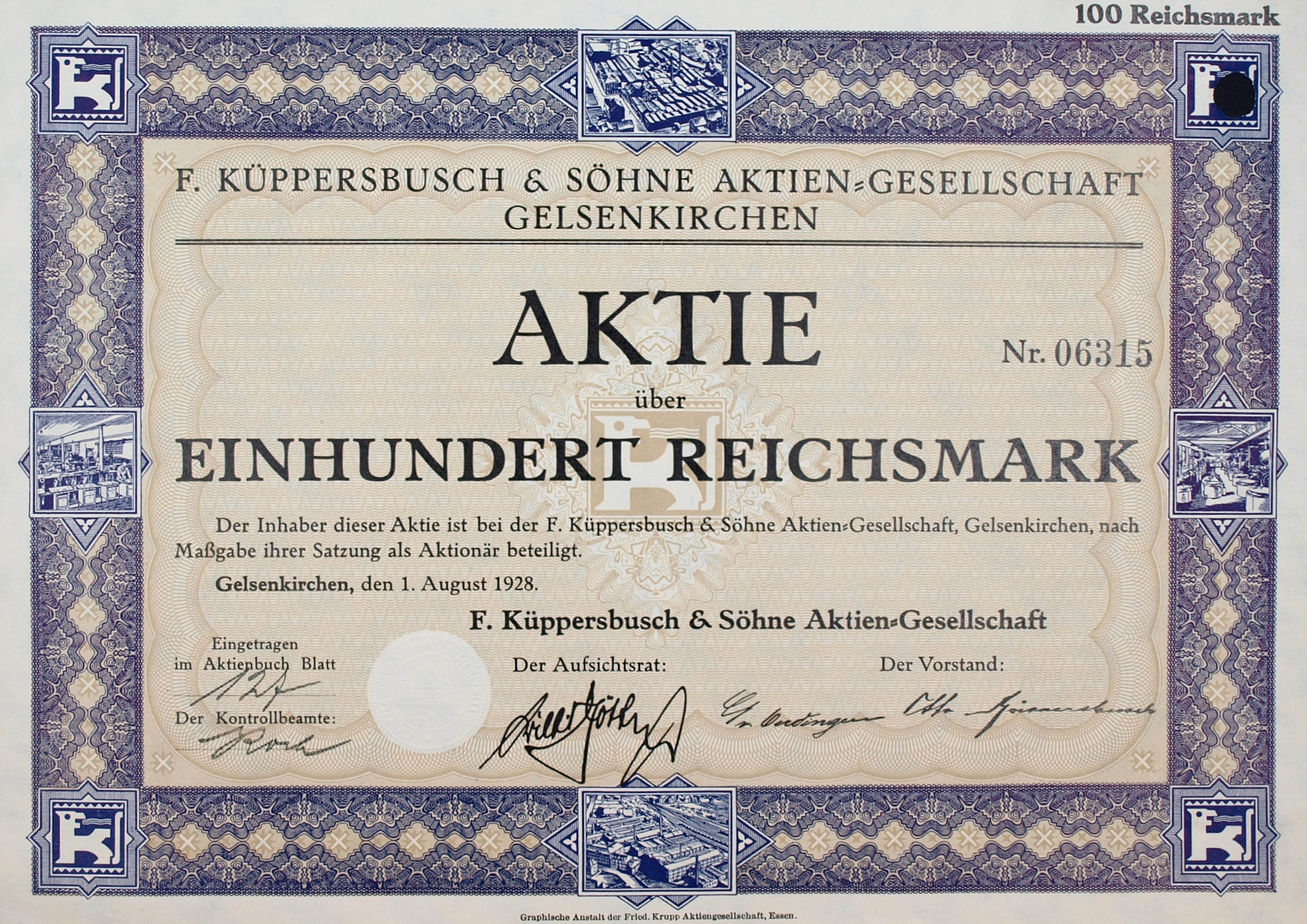 Share of the F. Küppersbusch & Söhne AG, issued 1. August 1928